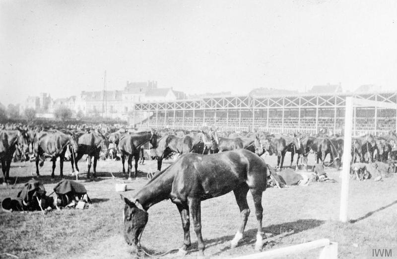 The British Army on the Western Front 1914 - 1918 Horse lines of the Northumberland Hussars on a football pitch in Bruges, October 1914